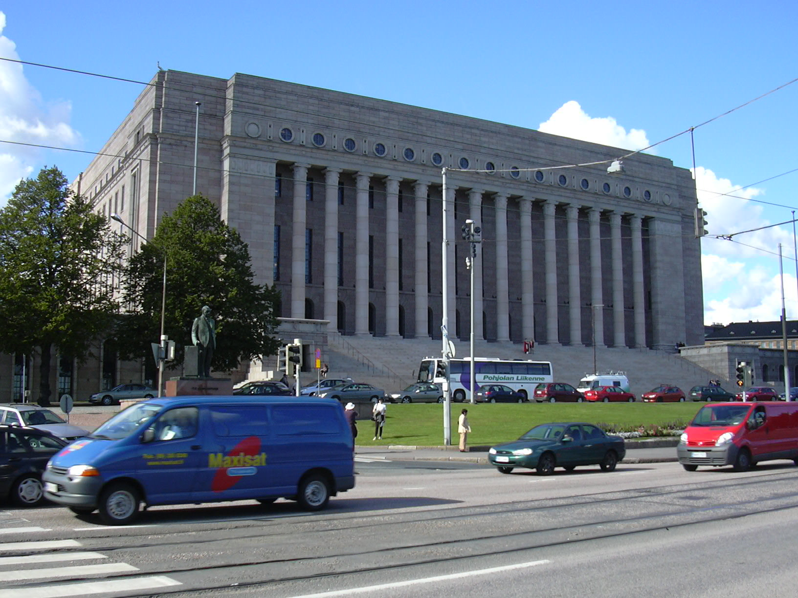 Parliament House, Helsinki